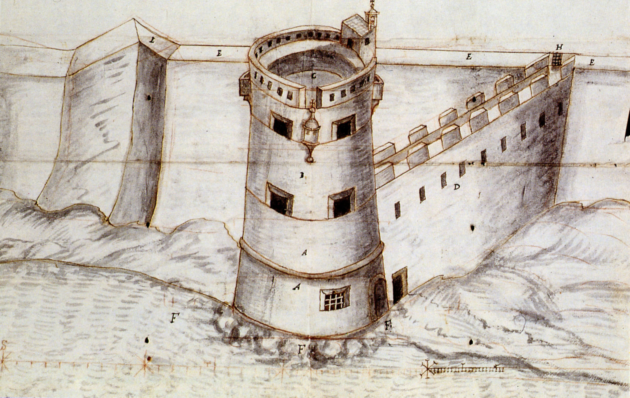 Drawing of the Tour du Sel in Calvi, Corsica